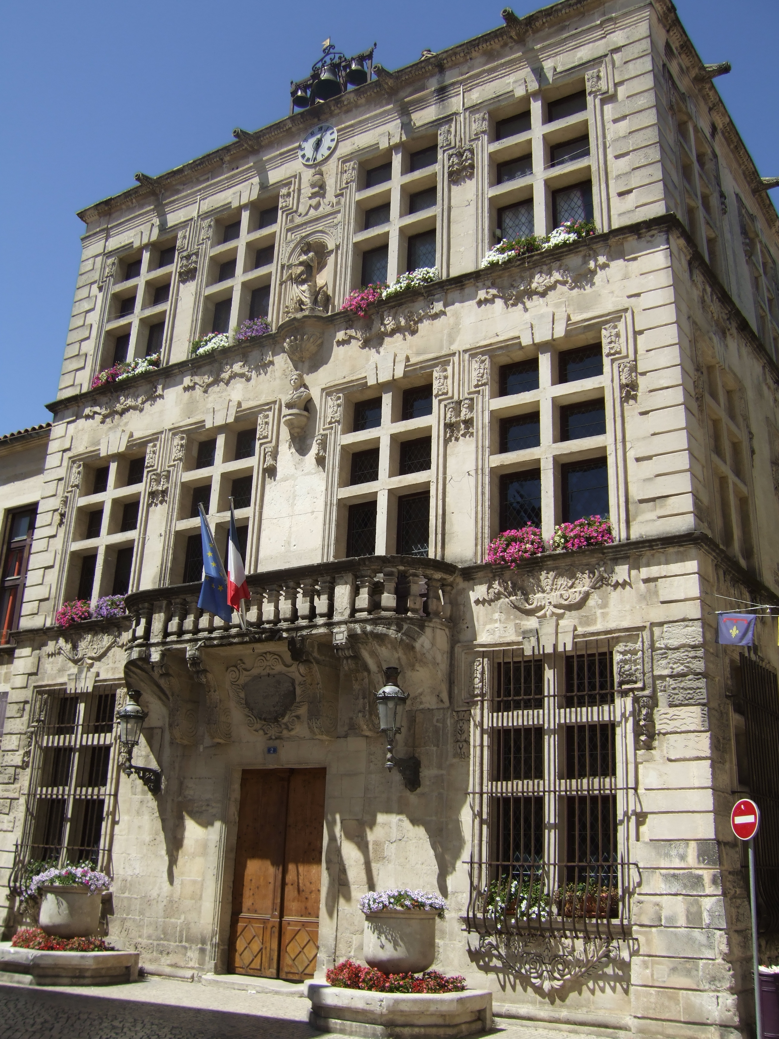 Town Hall of Tarascon en Provence (France)